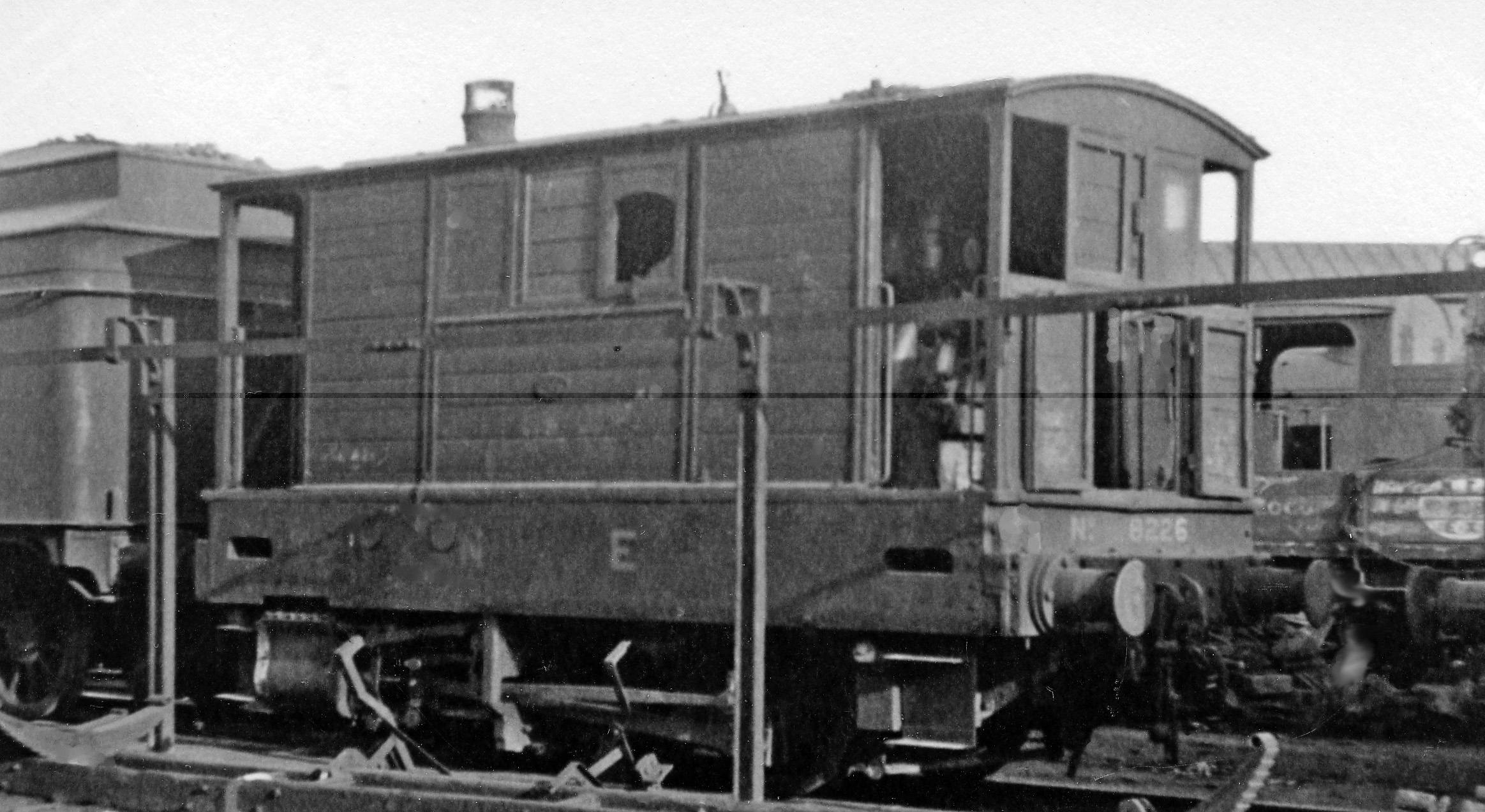 'Tram' engine at Stratford Locomotive Depot. This is not a brake-van, but is a small '0-6-0T' with 3'1" wheels, Class J70 built specially for working on the several roadside tramways in East Anglia, with protection from horses (and people) by its skirting, cow-catchers (removed here) and speed restricted by governors to 8 mph. No. 8226 seen here worked on Hythe Docks at Colchester: it lasted until 1955.